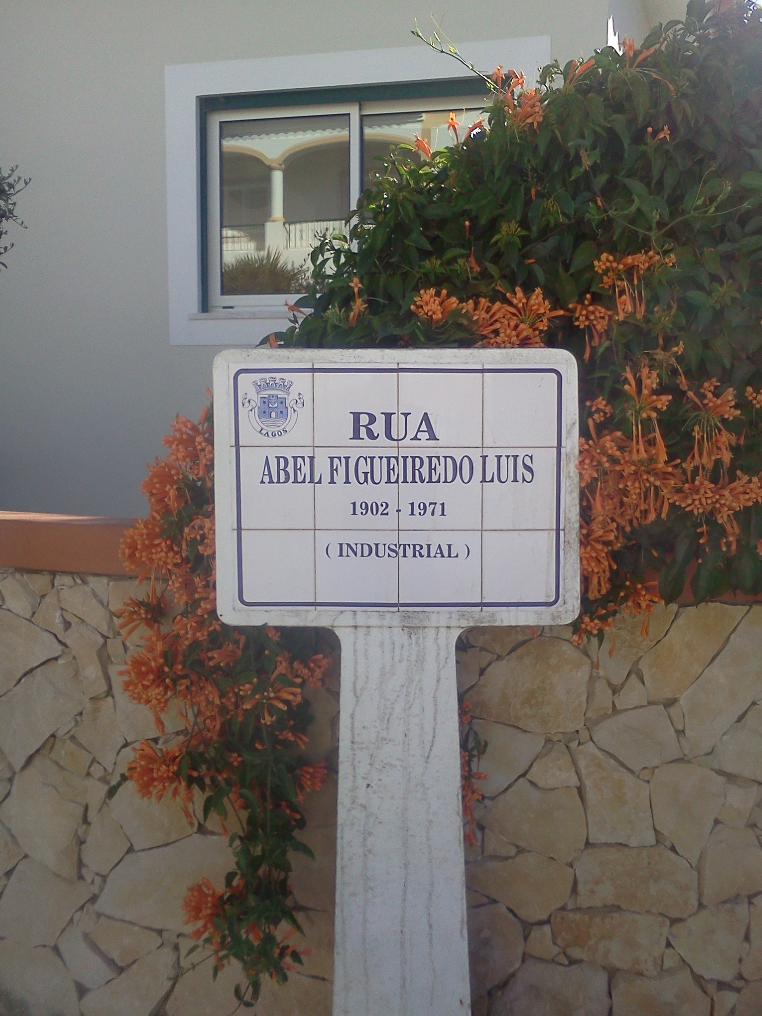 Street sign of Rua Abel Figueiredo Luís, in the city of Lagos, in southern Portugal.